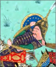 Painting of Gurgin in The Shahnama of Shah Tahmasp